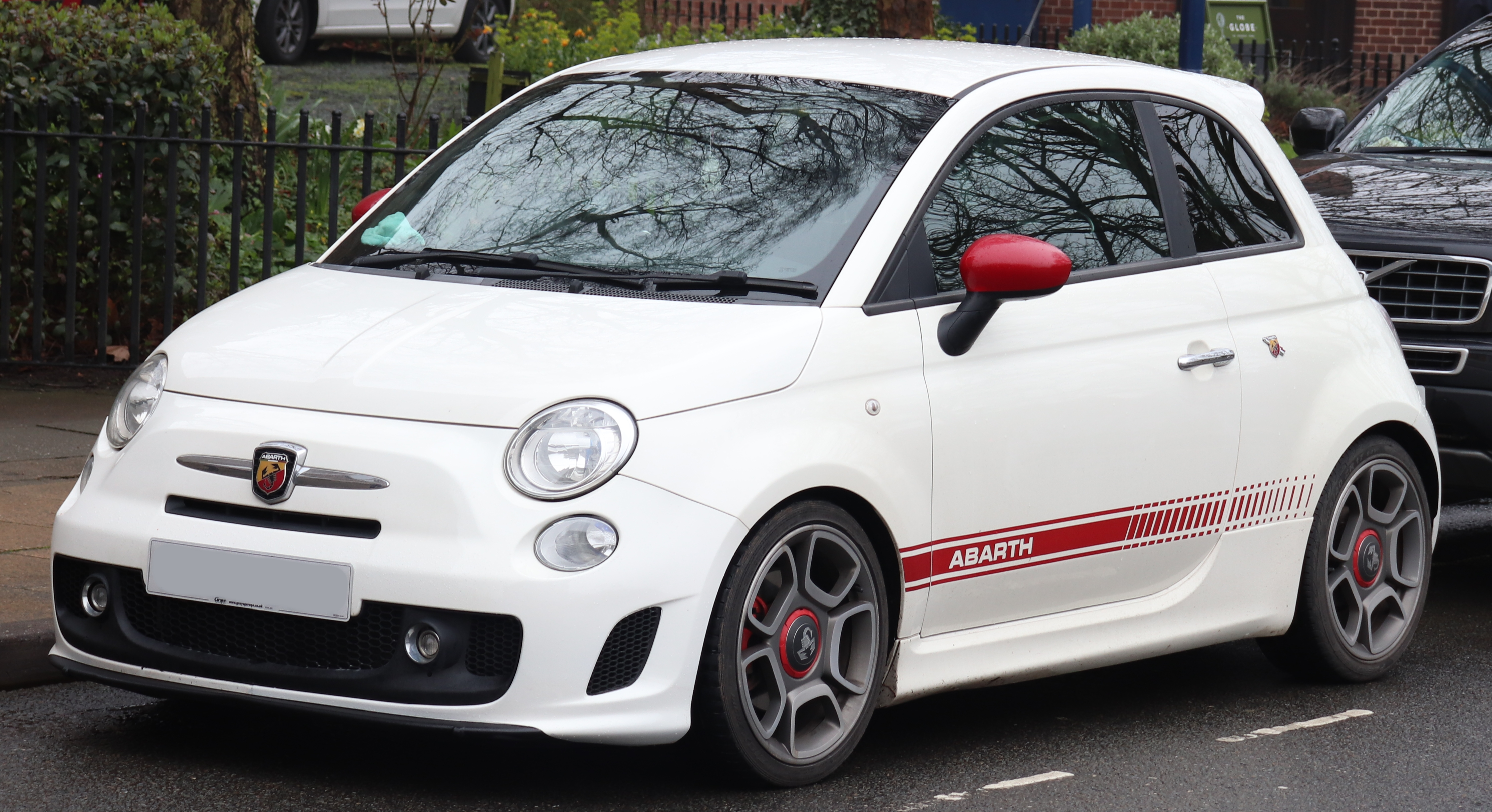 2009 Abarth 500 1.4 Front Taken in Warwick